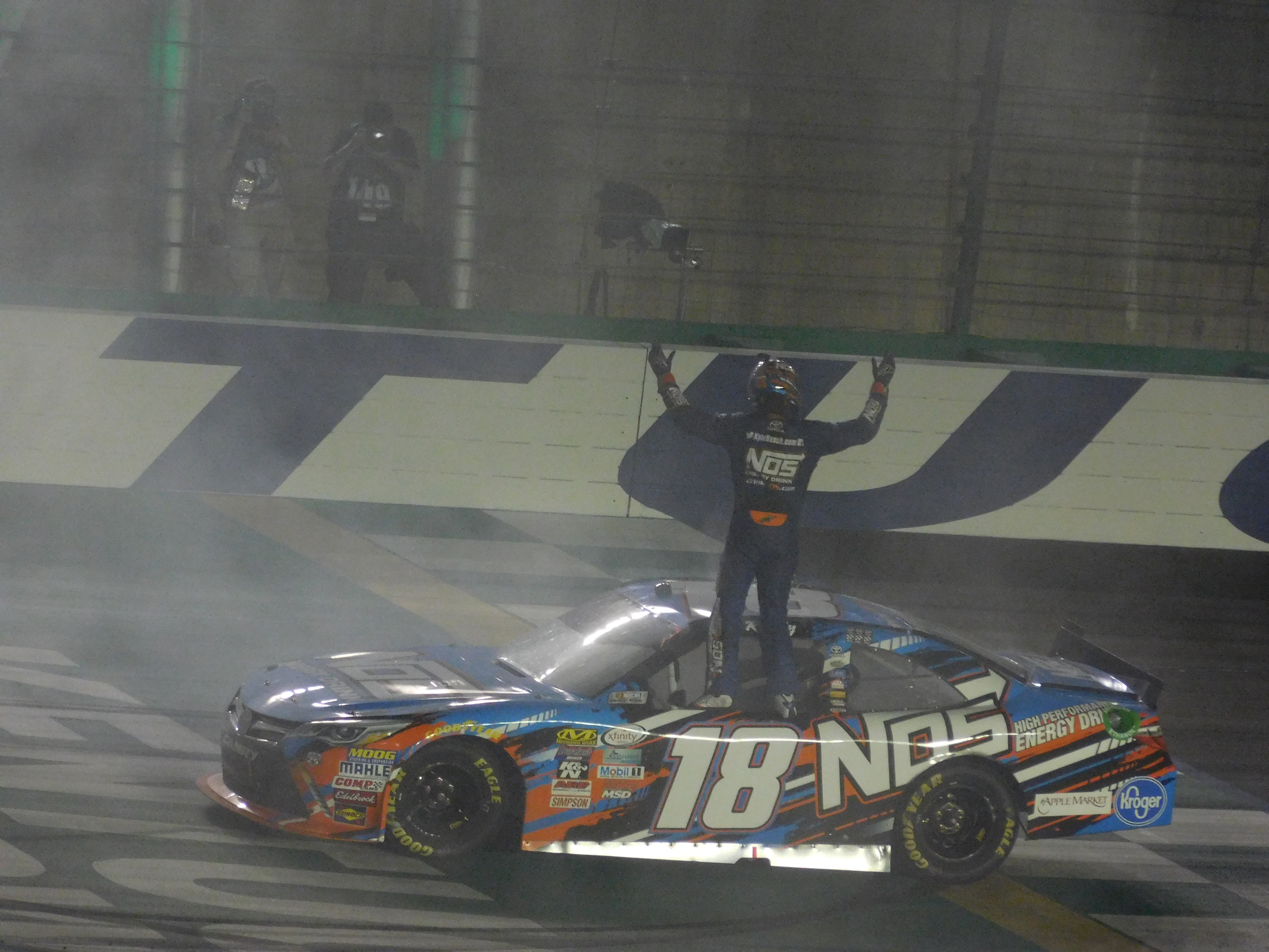 Kyle Busch celebrates after winning the Alsco 300 at Kentucky Speedway in 2016.